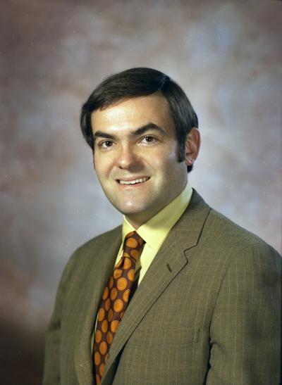 Representative John M. Rosellini, 1971